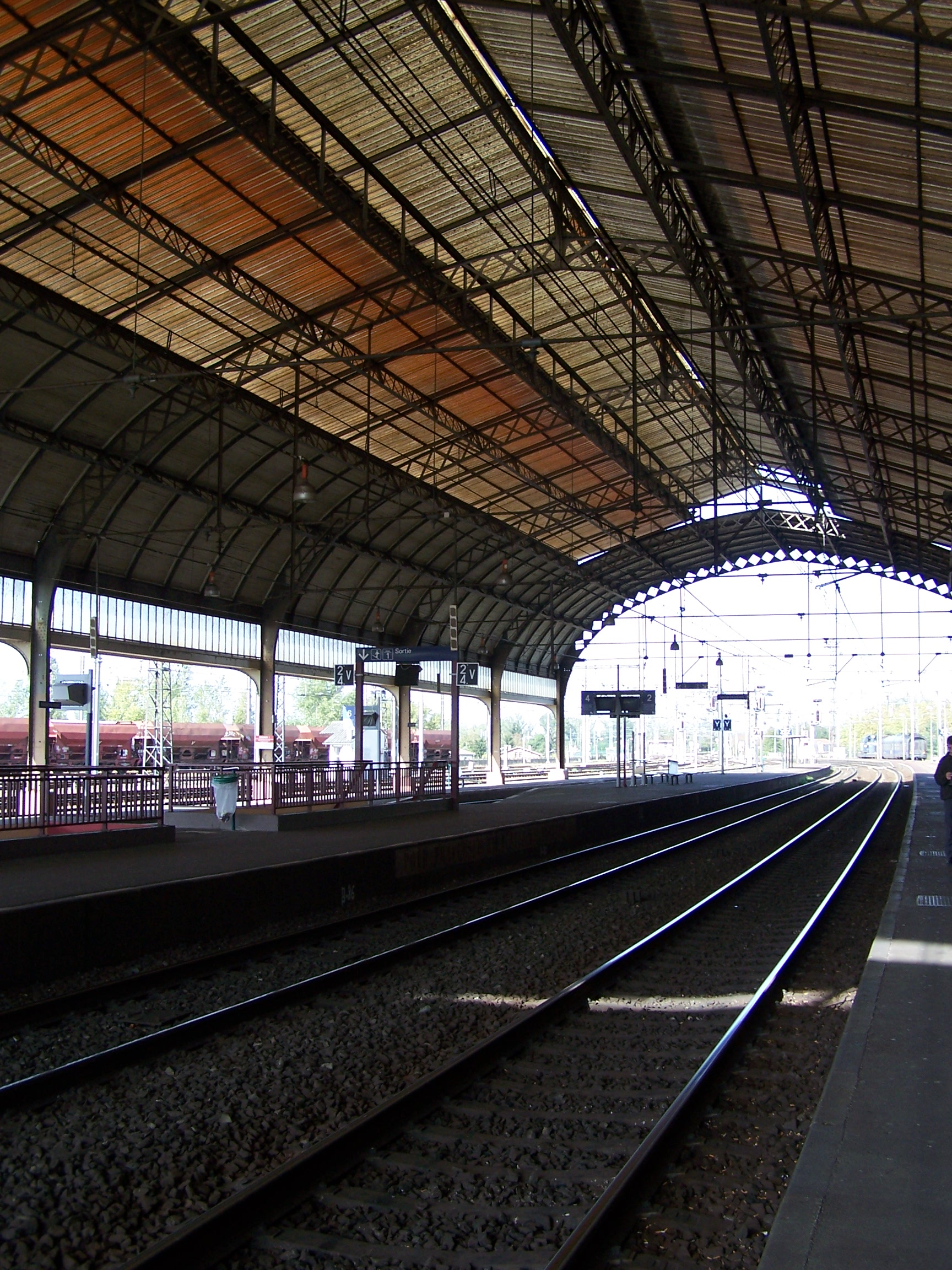 Train station of Montauban (Tarn-et-Garonne, France)